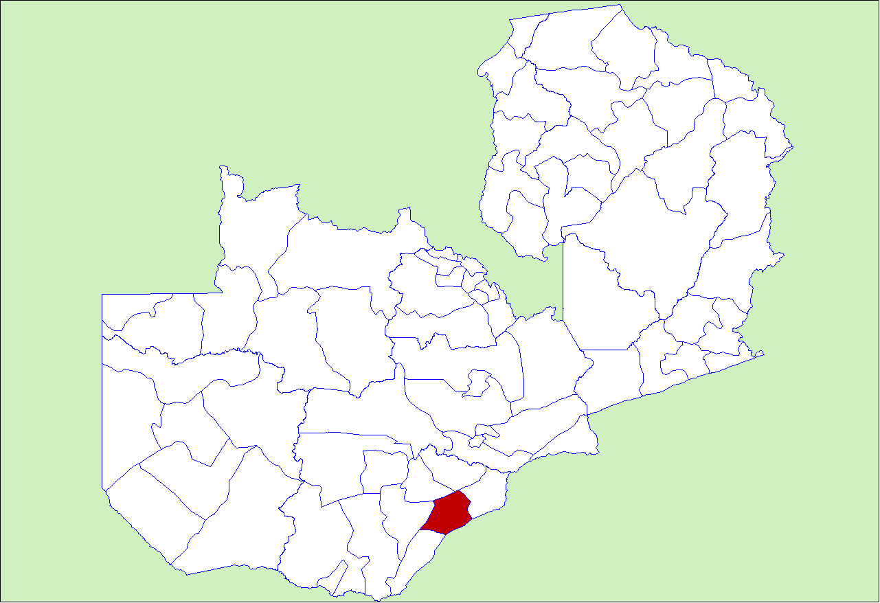 District locator in Zambia